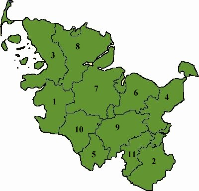 Schleswig-Holstein: districts